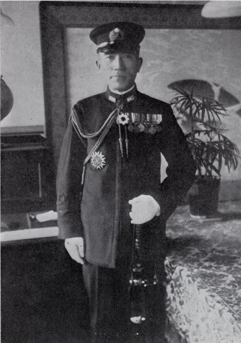 Ōnishi Shinzō was an Imperial Japanese Navy Vice Admiral.